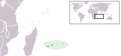 Location of Mascarene Islands in the Indian Ocean, with political borders